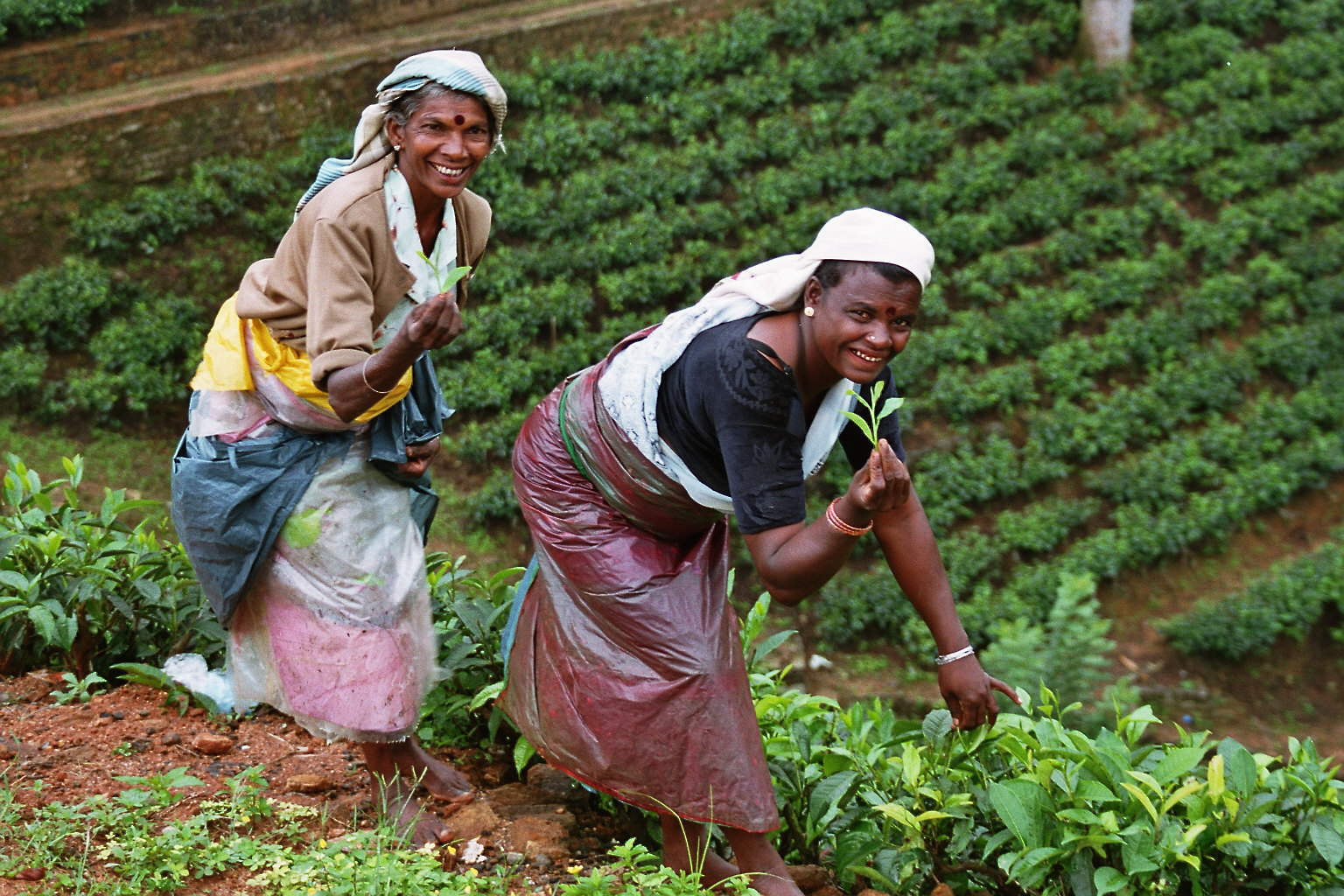 Tea pluckers in the highlands of Sri Lanka